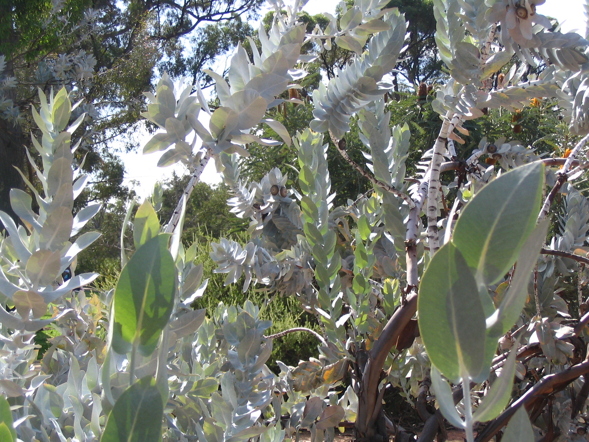 Closeup of leaves and stems of mottlecah (Eucalyptus macrocarpa) in Kings Park, Perth, Australia.